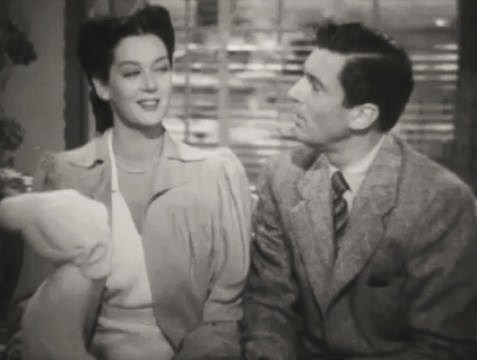 Rosalind Russell and Walter Pidgeon in Design for Scandal - trailer (cropped screenshot). Rosalind Russell is wearing a costume designed by costume designer Robert Kalloch.